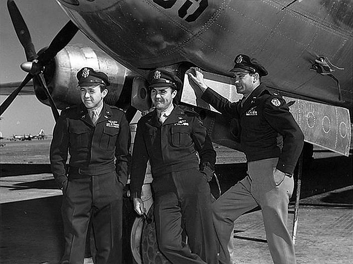 Left to right, Captain Theodore Van Kirk (navigator), Colonel Paul W. Tibbets (pilot) and Major Thomas Ferebee (bombardier), crew of the Enola Gay